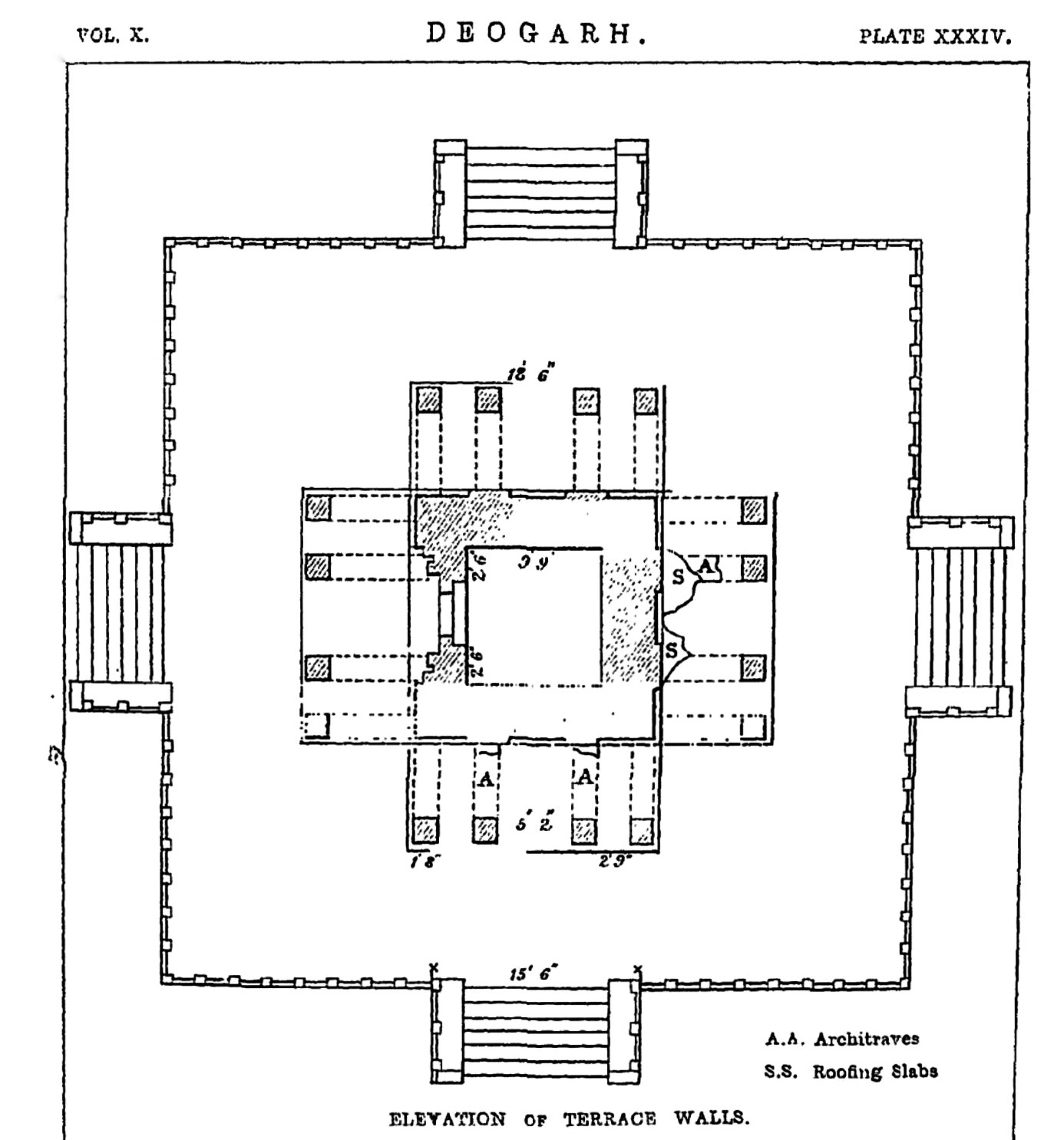 Dasavatara Temple at Deogarh (c. 500 CE) in one of earliest surviving Nagara style Hindu temple made from stone-masonry. It has a square plan. Like all major pre-12th century Hindu temples has multiple entrance, with stairs shown in the middle of all four sides. The middle square has a shrine with oldest known square lithic sikhara in North India. Note: The plan is not to scale and has photography angle errors; some parts were not drawn by Cunningham. For a more accurate drawing, please see: Madho Sarup Vats (1952), The Gupta Temple at Deogarh.